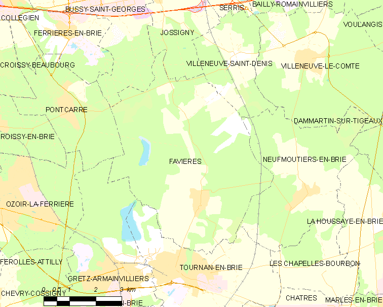 Map of French municipality Favières